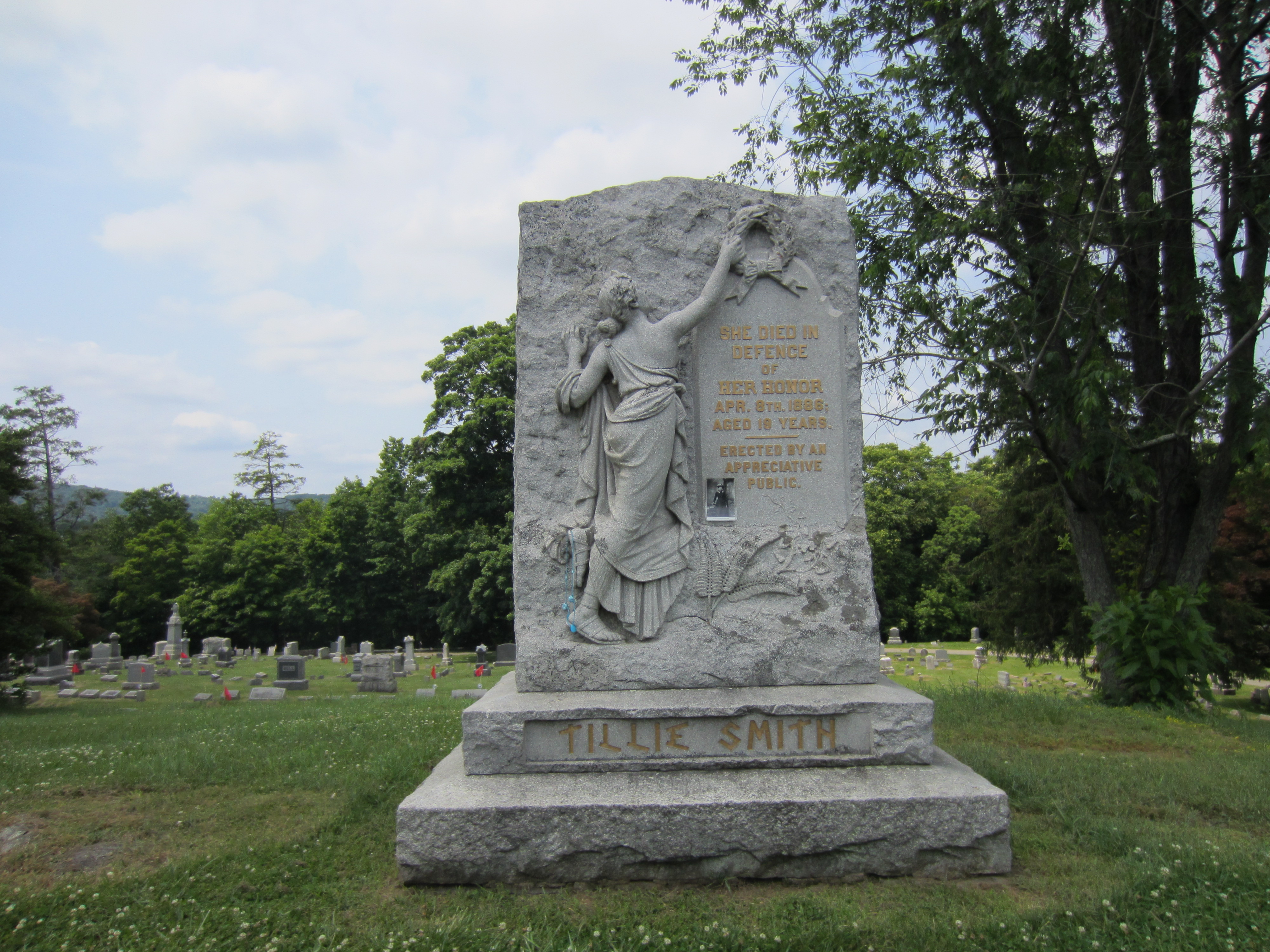 Union Cemetery - Hackettstown, NJ - Erected by an Appreciative Public